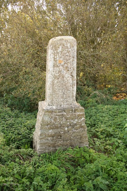 St Guthlac's Cross at the junction of Wash Bank and Peak Hill, north of Crowland, Lincolnshire. A faded inscription on it begins "HANC PETRA GUTHLAC..." It is thought a boundary stone for land held by Crowland Abbey in the Middle Ages.